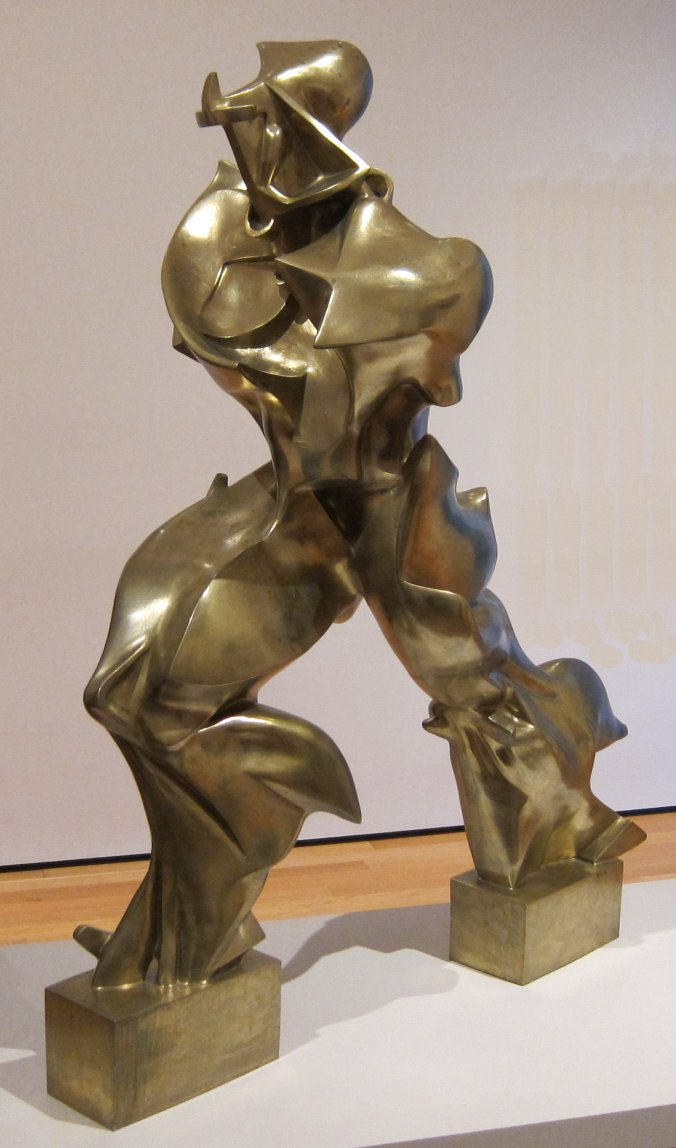 Unique Forms of Continuity in Space by Umberto Boccioni, The Museum of Modern Art, New Yrk City